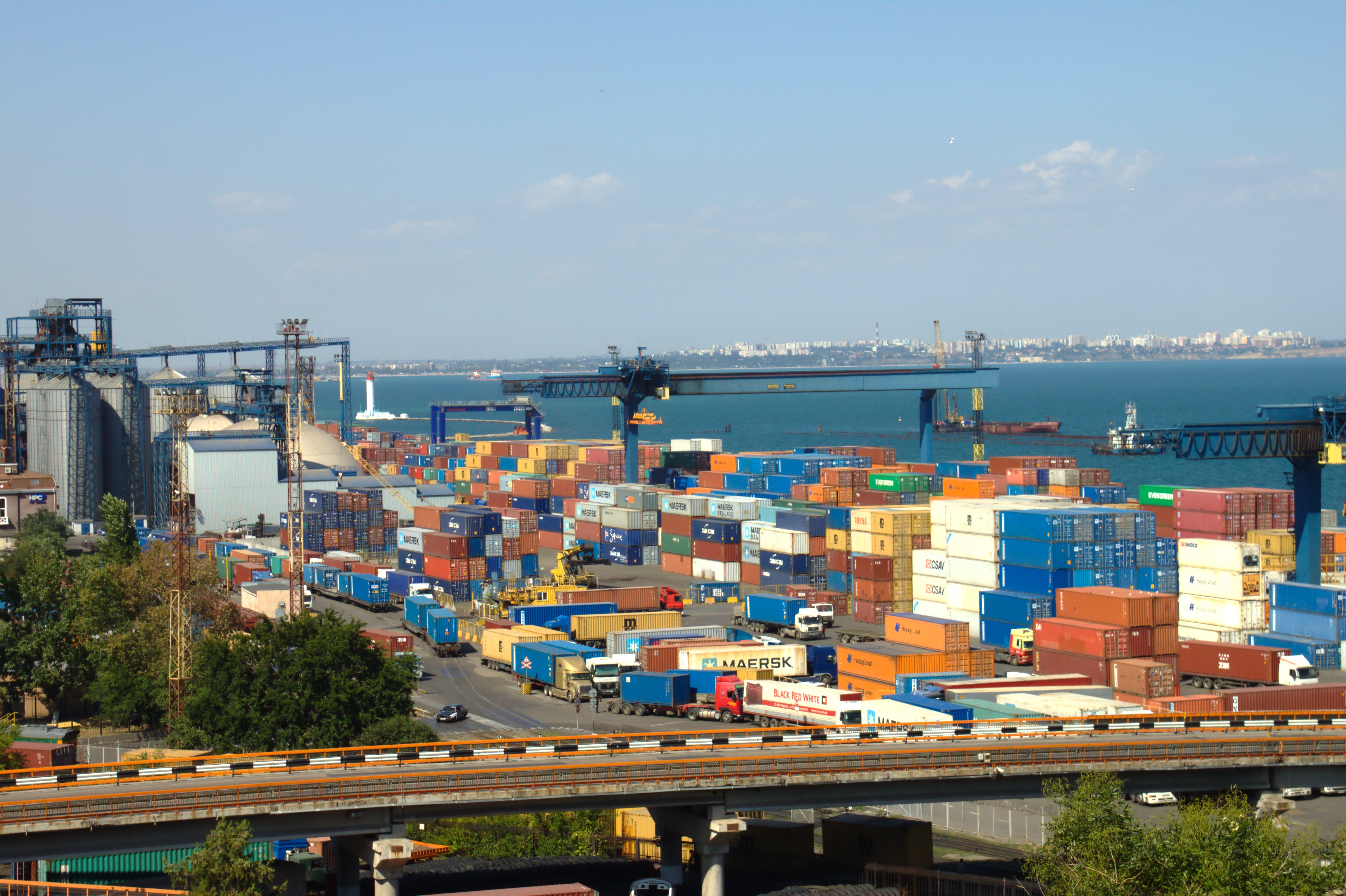 The port in Odessa, Ukraine